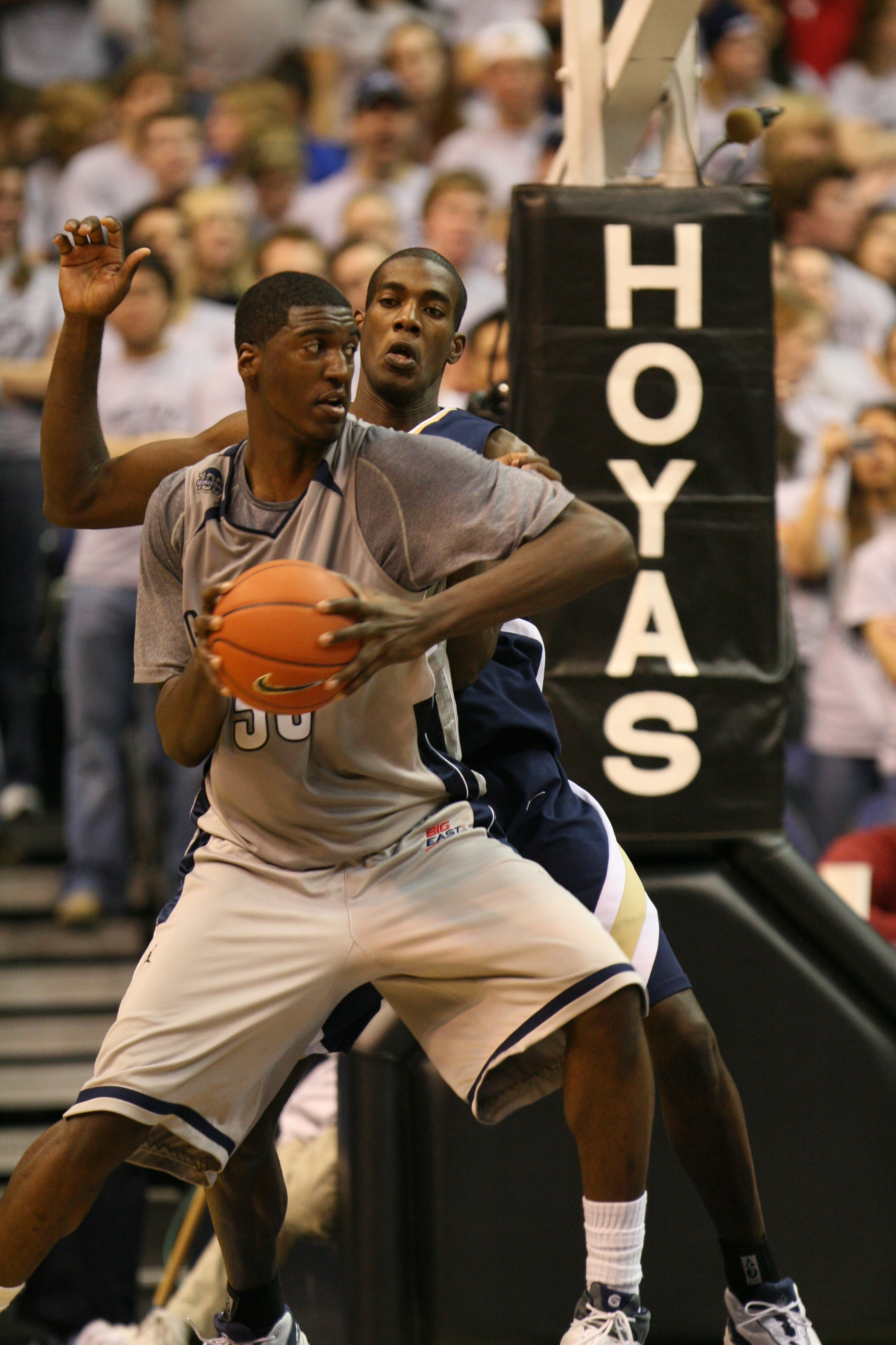 Roy Hibbert at a game against the Oral Roberts Golden Eagles